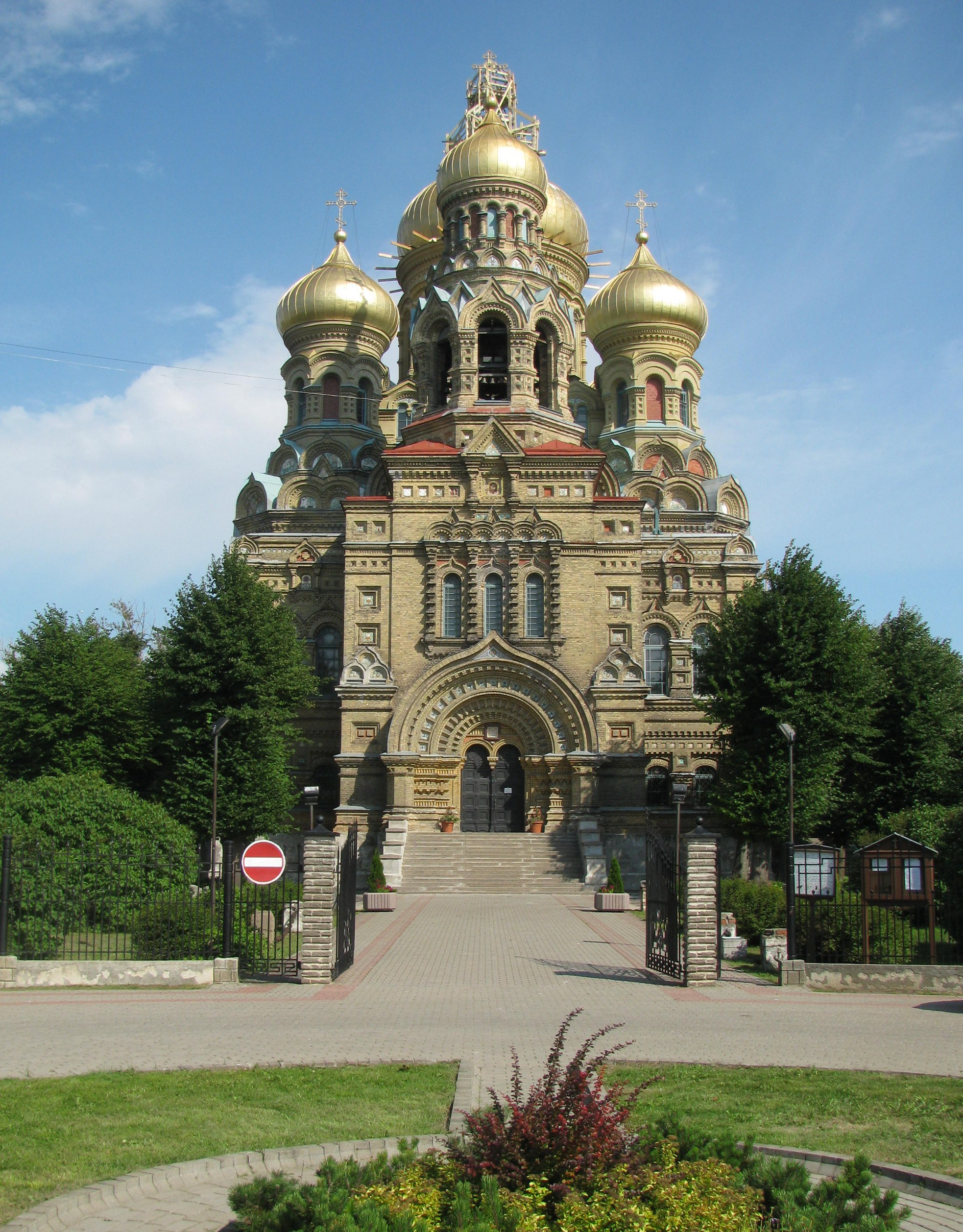 St. Nicholas's Orthodox Naval Cathedral, Karosta, Liepāja, Latvia